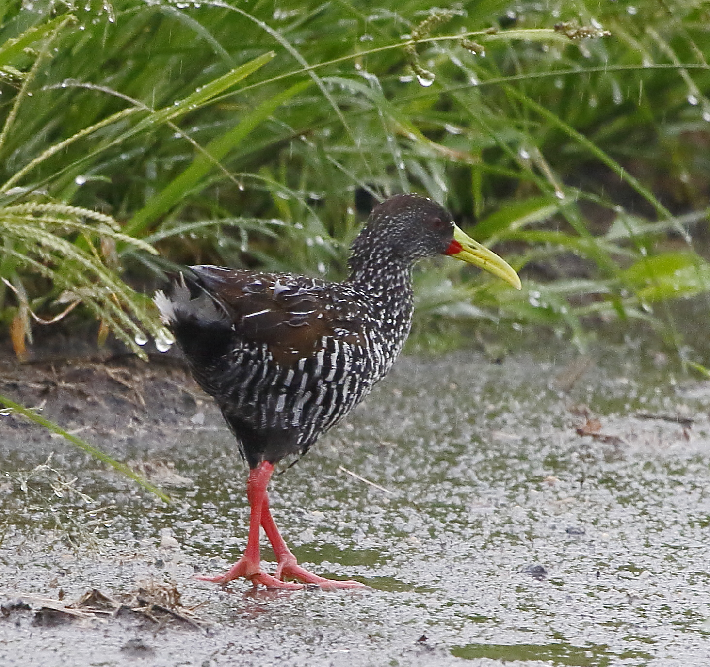 Spotted rail at Caçapava - SP - Brazil